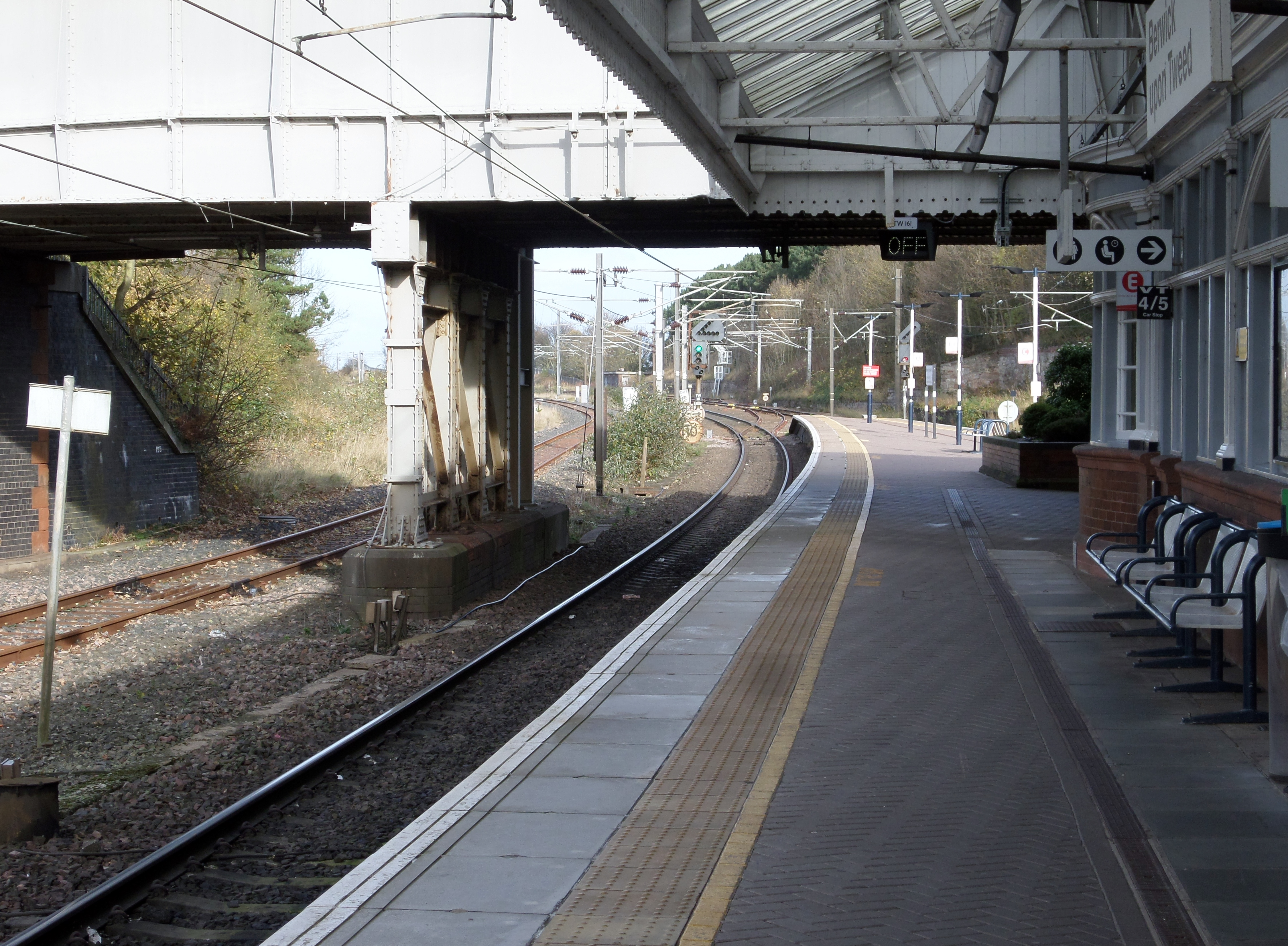 The station island platform view at the north side, Berwick-upon-Tweed, Northumbria.